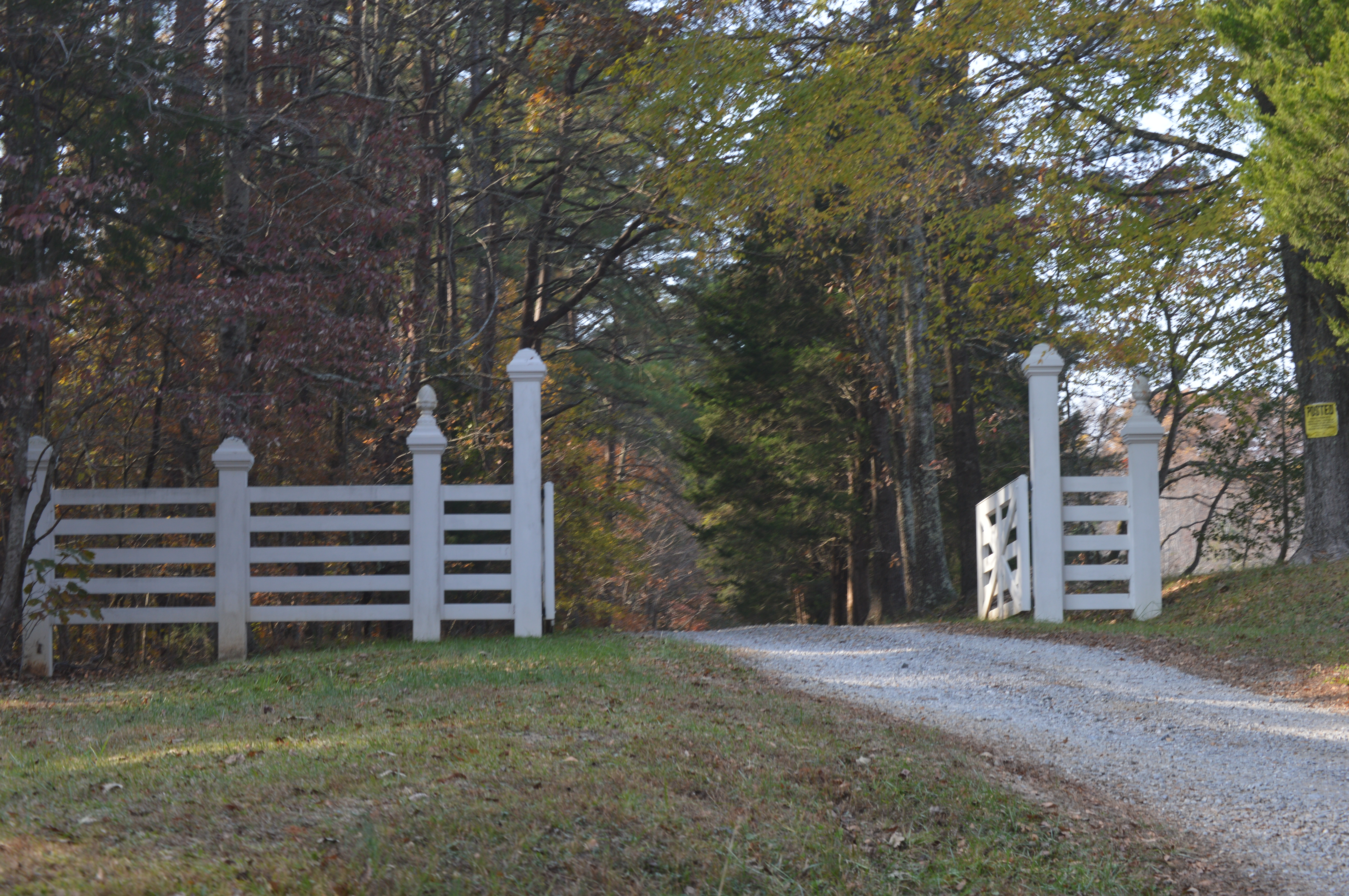 Entrance to the Westview estate, located at 1672 Terrell Road southeast of Brookneal in Charlotte County, Virginia, United States. The farmstead is listed on the National Register of Historic Places.